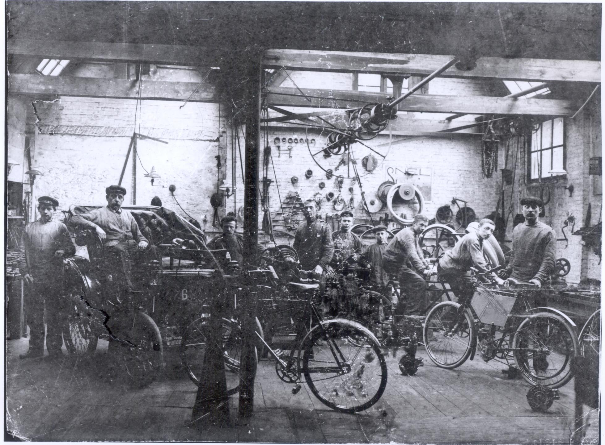 Garage of the Otten family